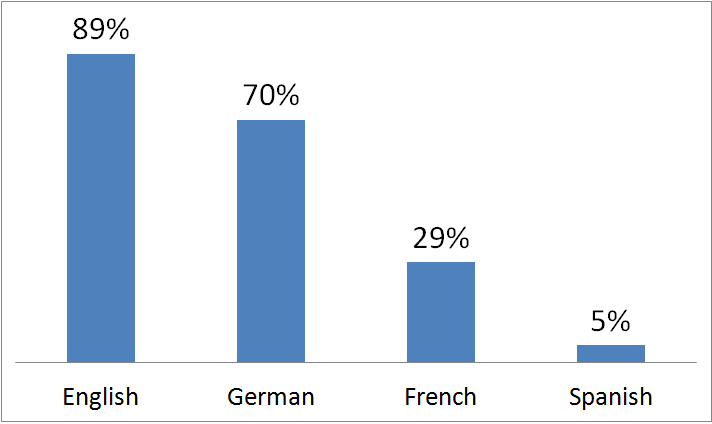 Knowledge of foreign languages in the Netherlands, in per cent of the adult population (+15), 2005. Data taken from an EU survey. ebs_243_en.pdf (europa.eu)